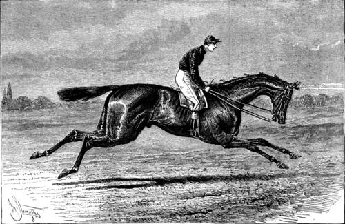 Merry Hampton, winner of the 1887 Epsom Derby. Etching from Illustrated London News.